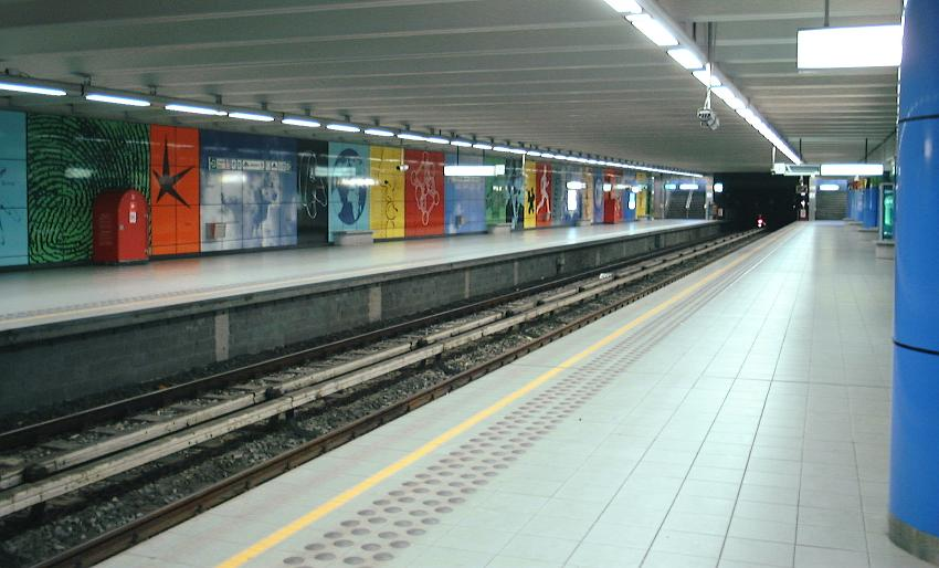 Platforms of Heizel / Heysel station, Brussels metro